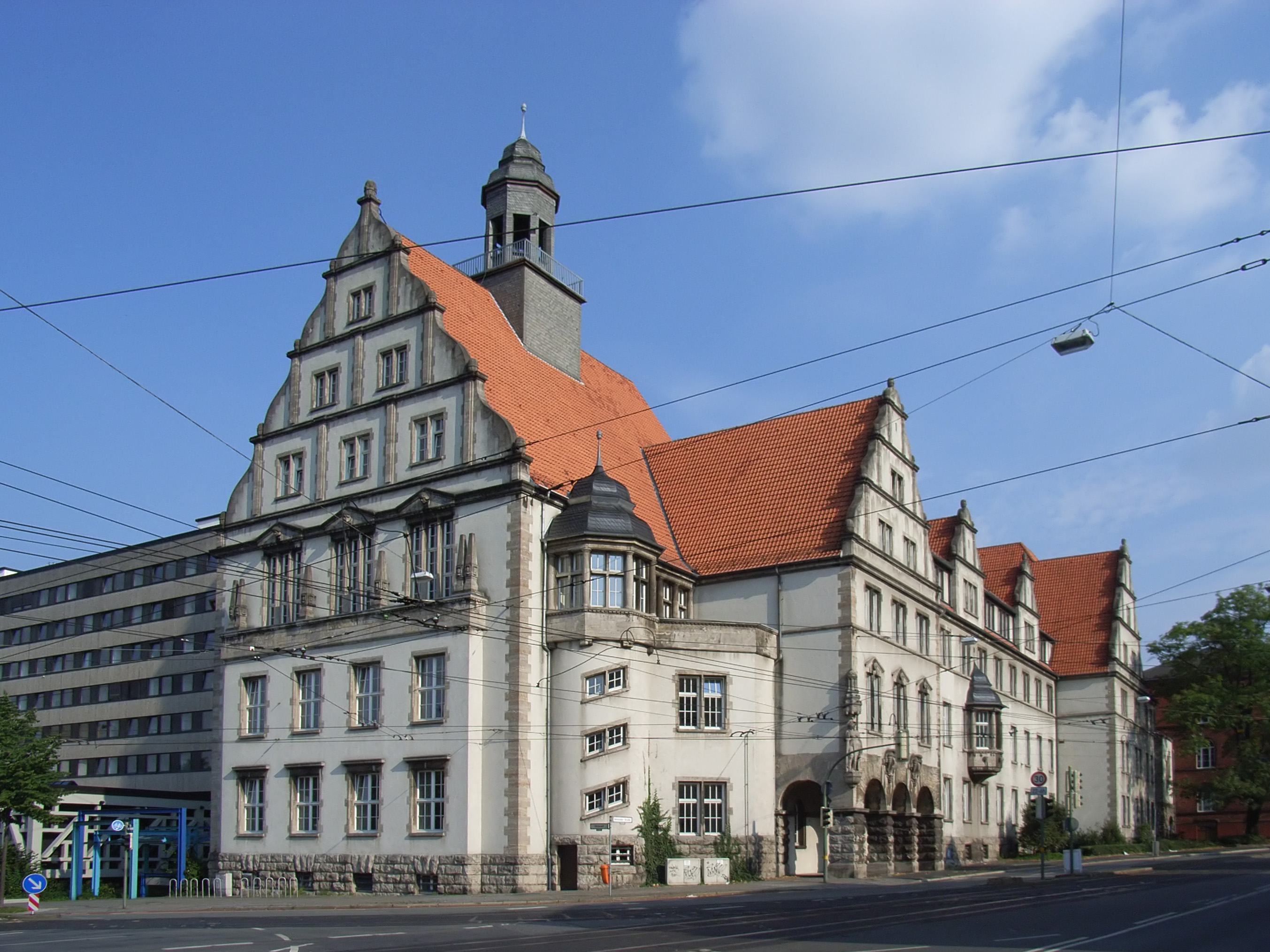 Bielefeld, Germany: Regional court